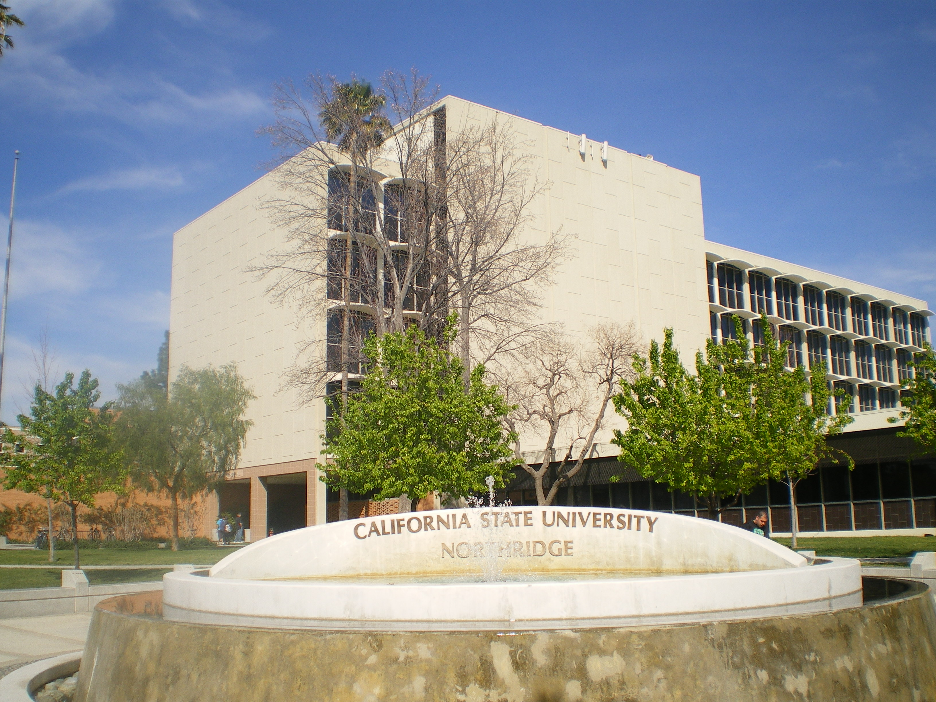 California State University, Northridge CSUN, Northridge, San Fernando Valley — Southern California.